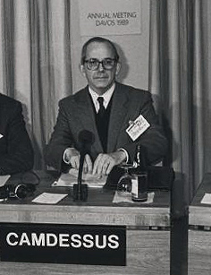 Michel Camdessus at World Economic Forum Annual Meeting